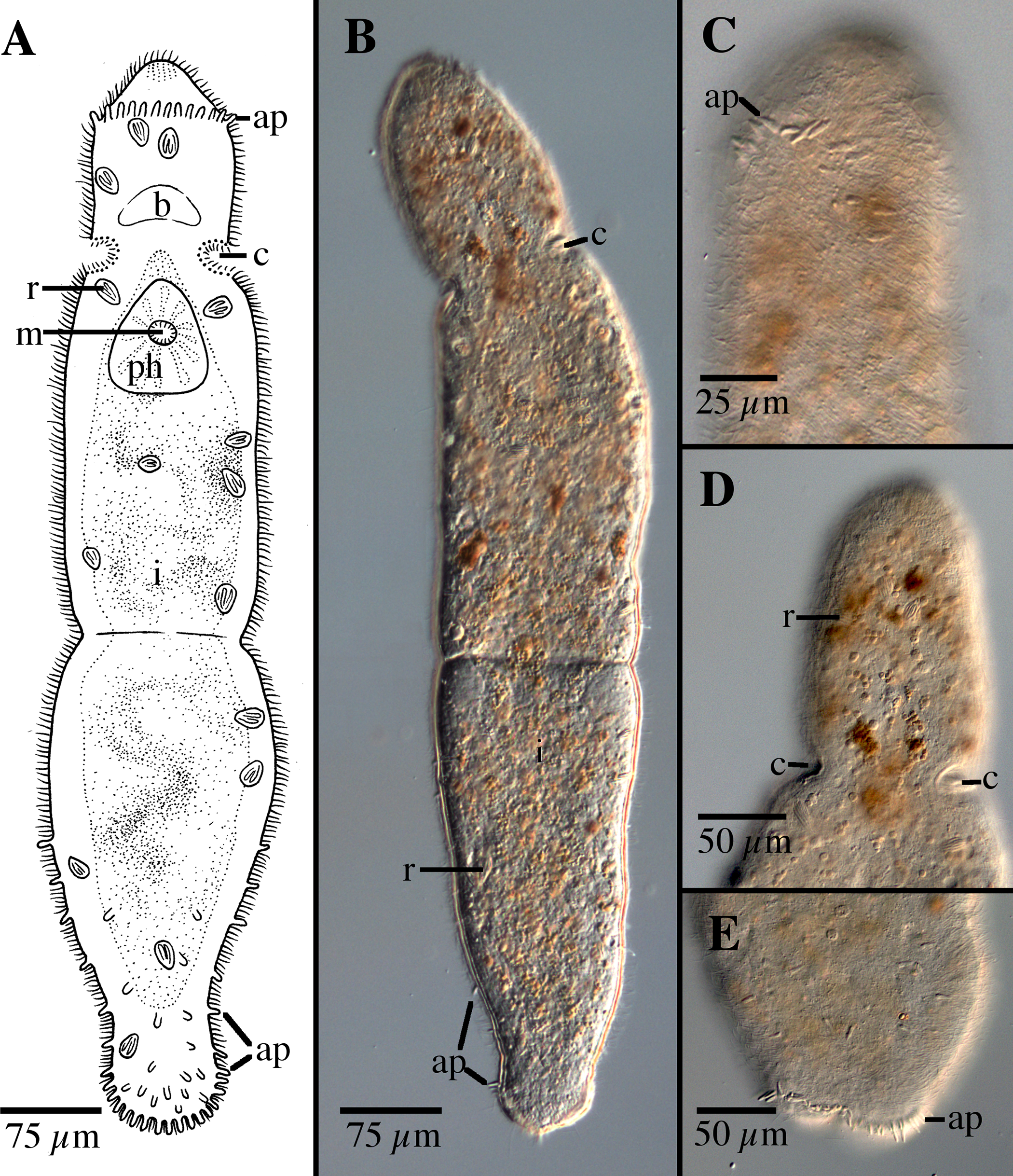 A. Drawing of whole body. B. Micropictograph of whole body C. Anterior end with focus on adhesive papillae. D. Anterior end with focus on ciliary pits E. Posterior end with focus on adhesive papillae. ap adhesive papillae; b brain; c ciliary pits; i intestine; m mouth; ph pharynx; r rhabdites.